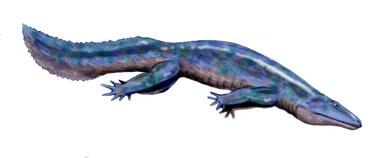 Diplovertebron punctatum, an embolomeri from the Late Carboniferous of Europe, pencil drawing